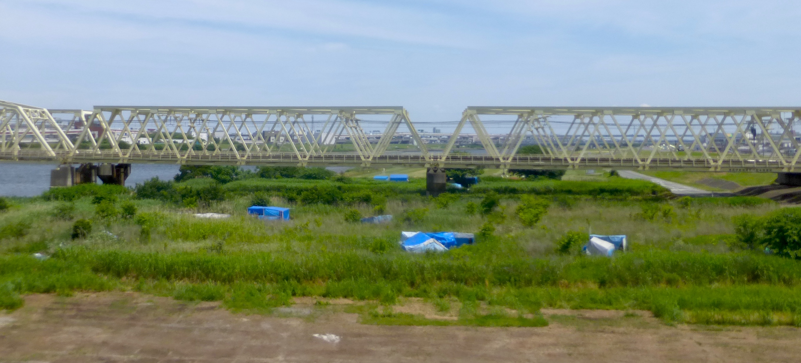 ホームレスのテント、荒川 (homeless housing near Arakawa river)